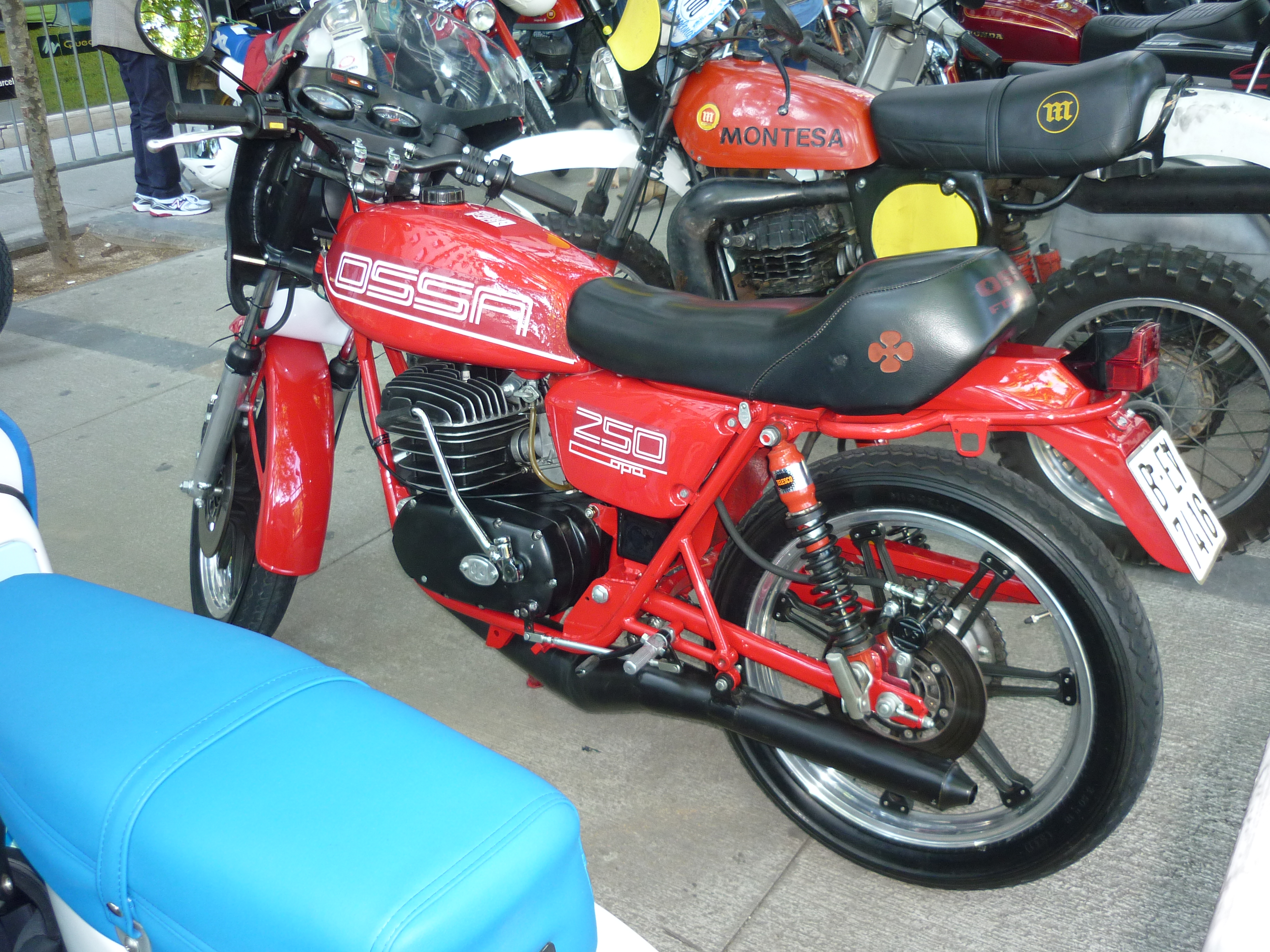 OSSA 250 Copa "Formula 3", 1981